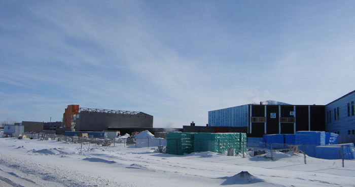 Consruction Site Blairmore Suburban Centre, Blairmore SDA, Saskatoon, Saskatchewan, Canada